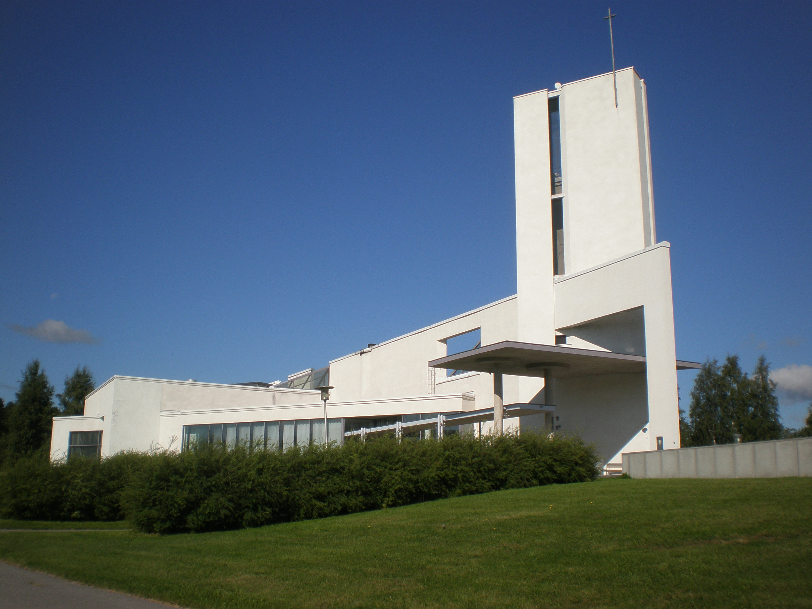 Cemetary chapel at Lamminpää cemetary